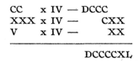 Alcuin's work on the computus, from "De Cursu et Saltu Lunae ac Bissexto", VIII c.